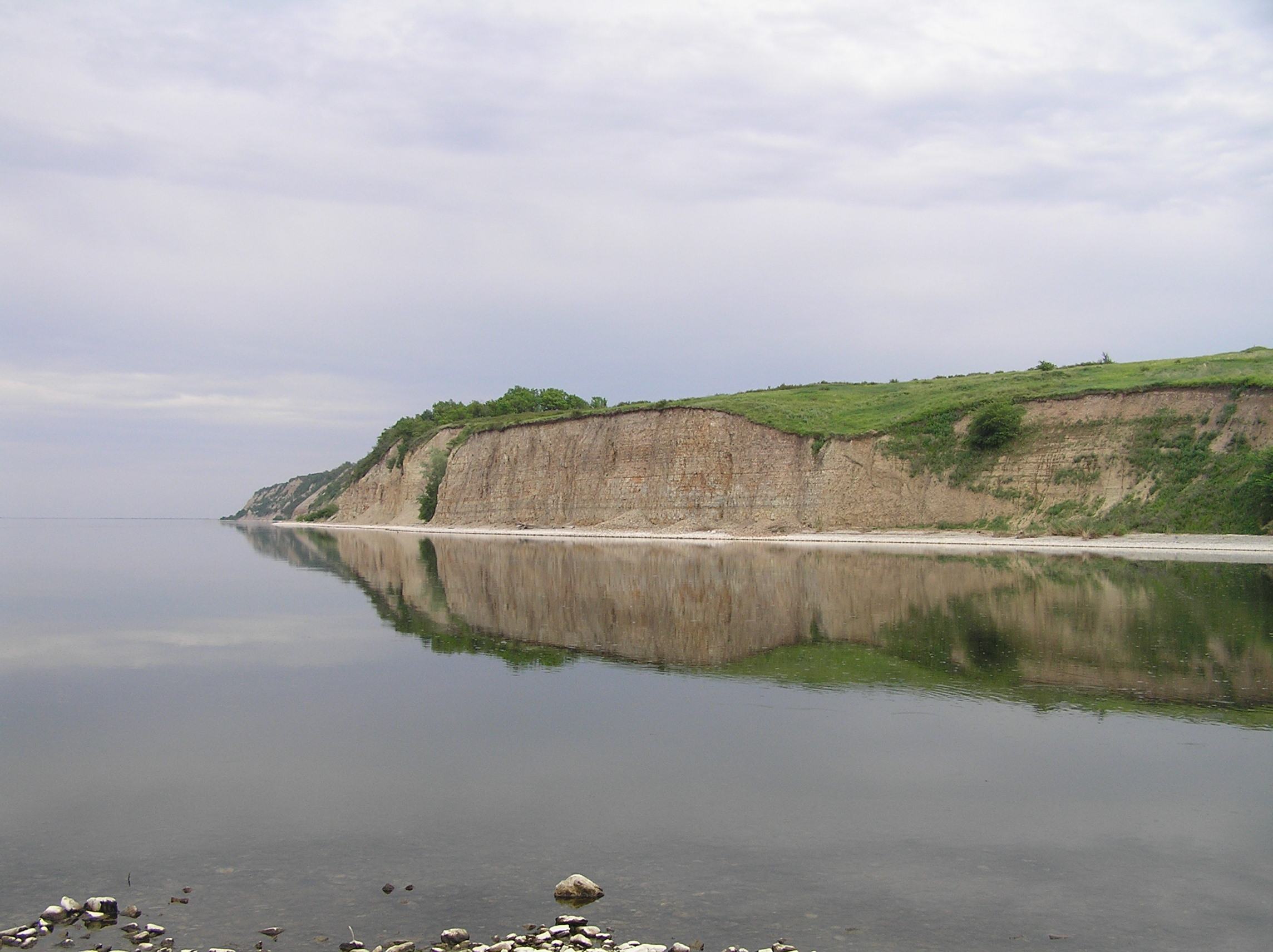 Steep right bank of the Volga in the border region of Volgograd and Saratov regions. Nature Park Shcherbakovskaya, Kamyshin district of the Volgograd Region.